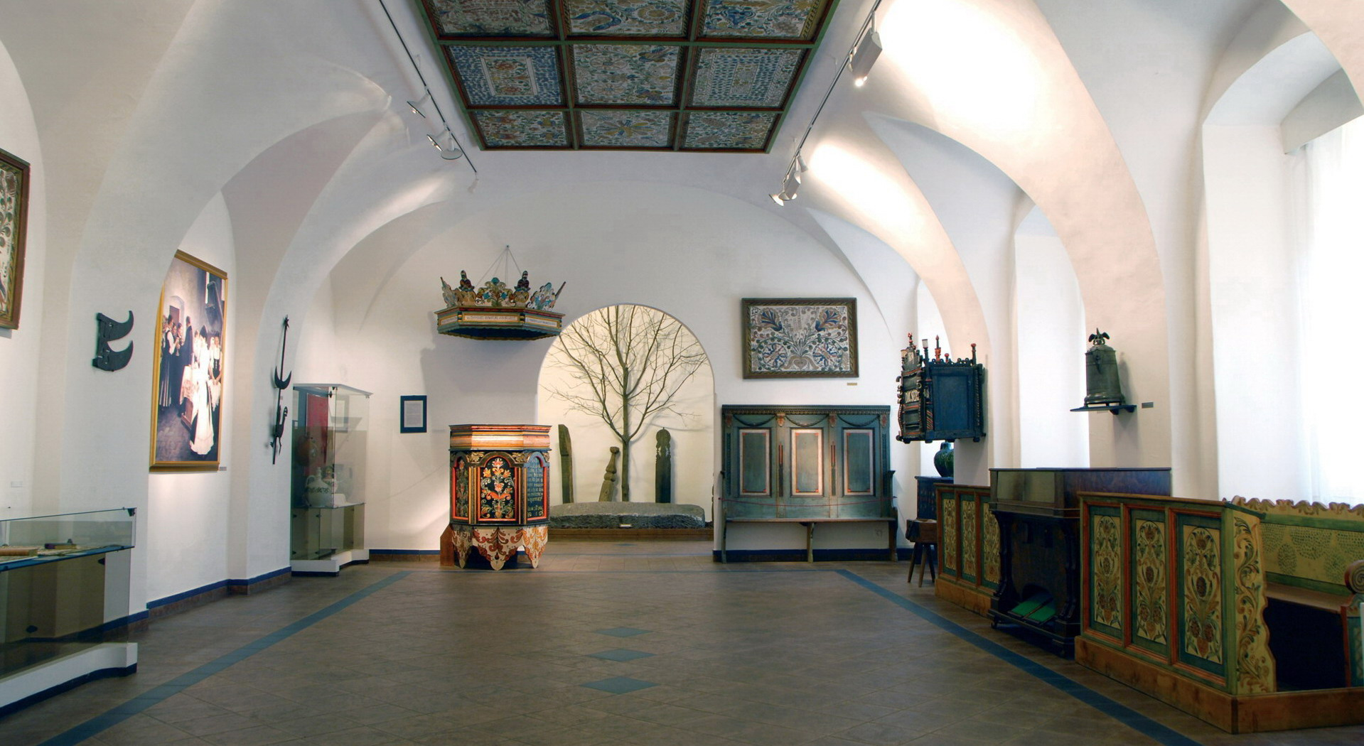 One room in the Reformed College of Debrecen's Church History Museum